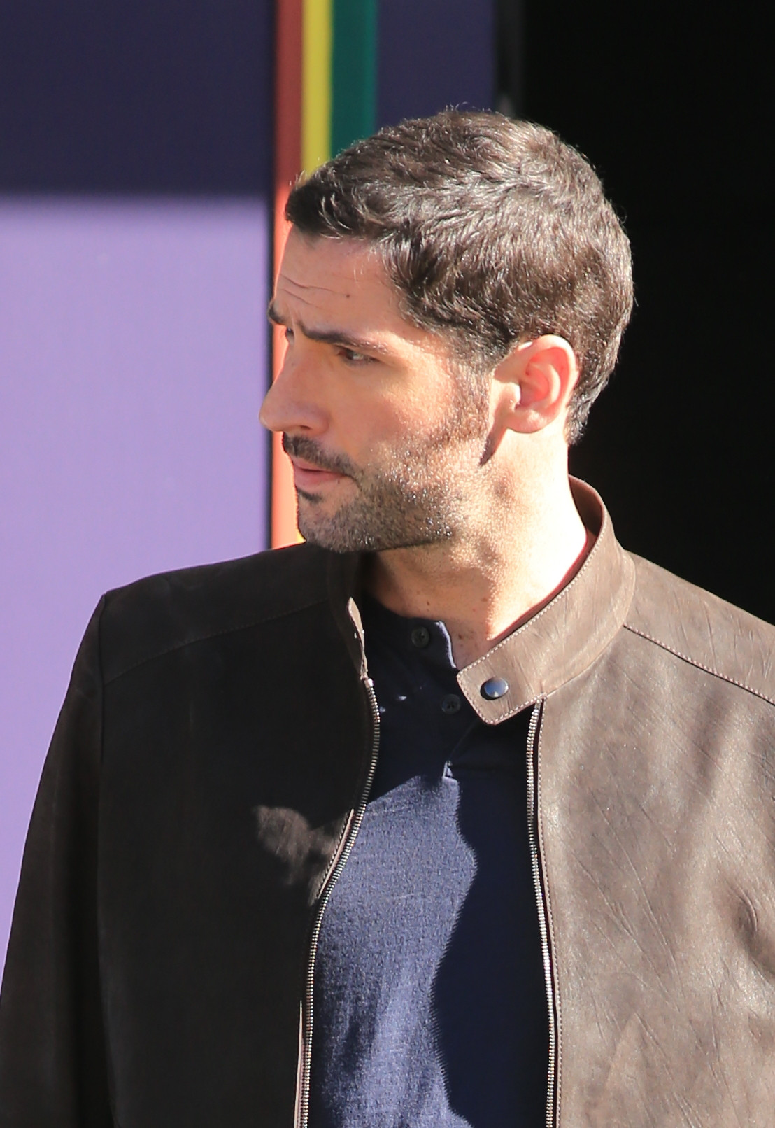 British actor, Tom Ellis, filming Rush in Vancouver, July 30, 2014